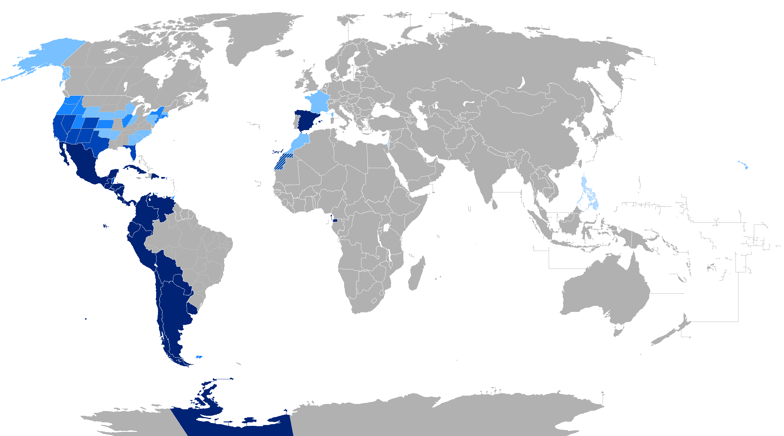 Spanish language at the world Countries where Spanish has official language status. States of the United States and countries where Spanish has no official status but is spoken by 25% or more of the population. States of the United States and countries where Spanish has no official status but is spoken by 10-20% of the population. States of the United States and countries where Spanish has no official status but is spoken by 5-9% of the population. Countries or regions where creoles of Spanish origin are spoken, with or without official recognition.